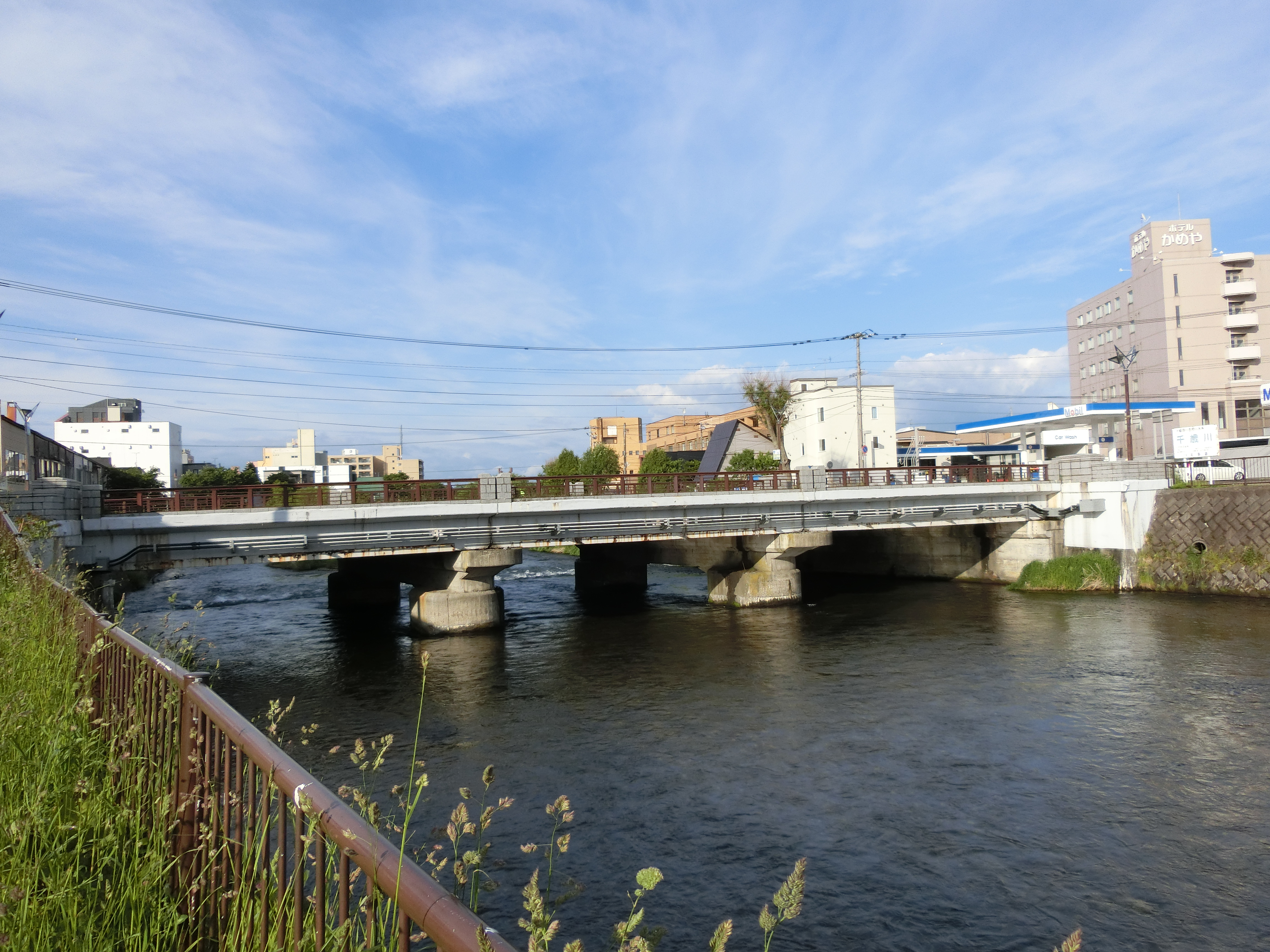 Japan National Route 36 Chitose Bridge over Chitose River in Chitose, Hokkaido